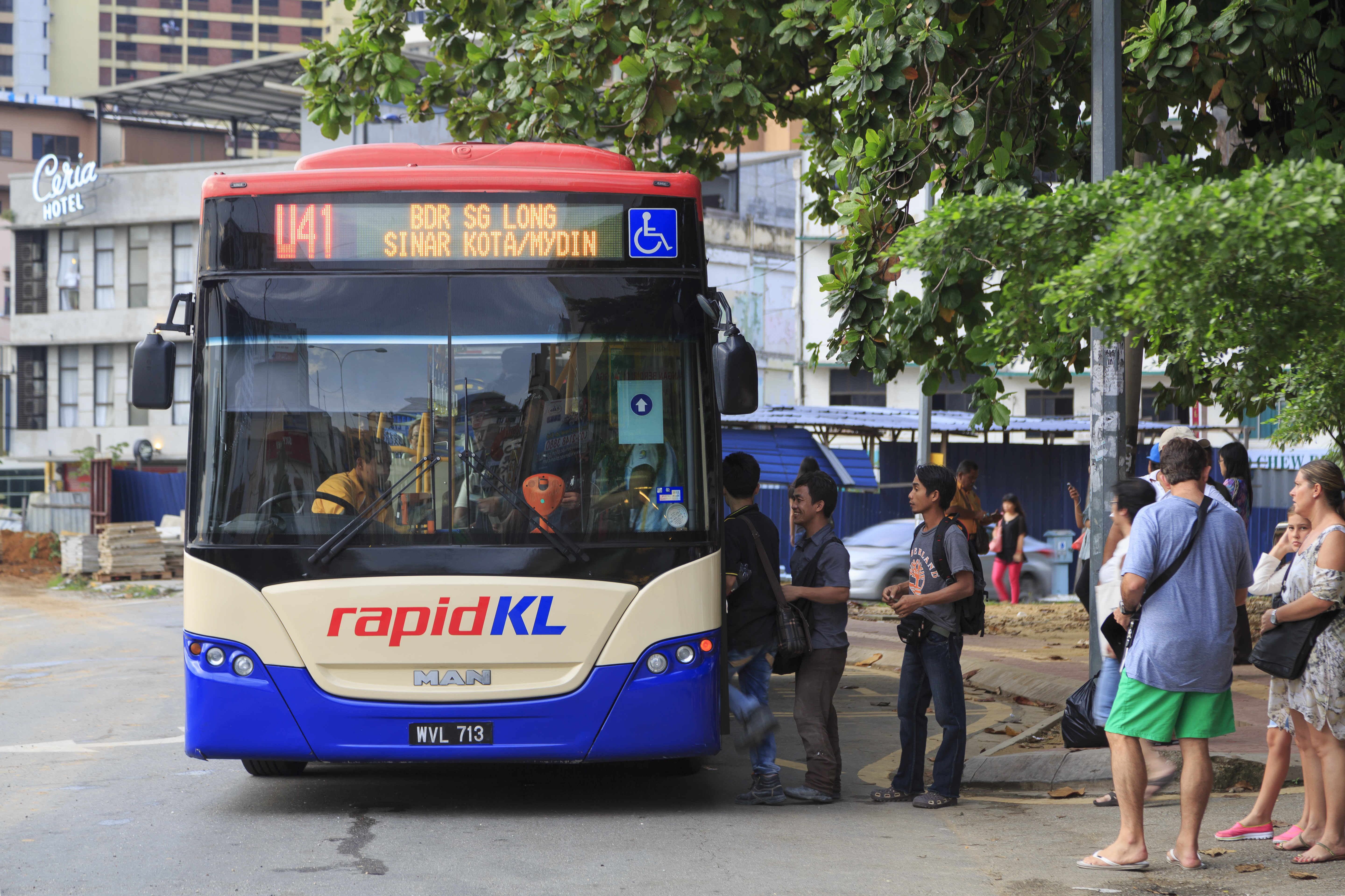 Kuala Lumpur, Malaysia: rapidKL bus at the station at Jalan Pudu in front of Hotel Furama, Pudu